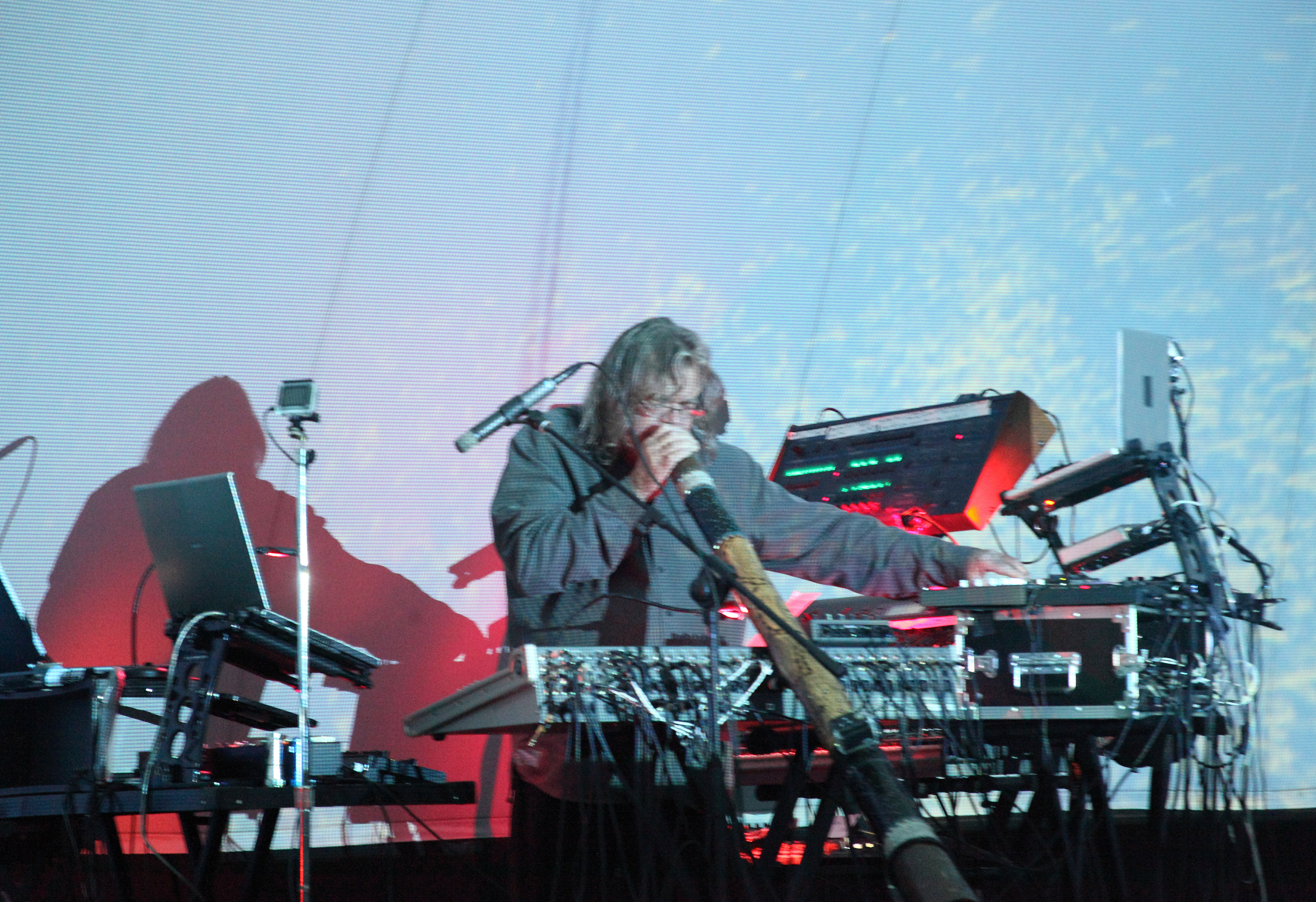 Steve Roach ( during the "Immerse Deepest" show during the Vortex Immersion Concert. This concert was held at 9:00 p.m. on October 26, 2013 in the Vortex Dome at Los Angeles Center Studios. Visual were created by Audri Phillips).